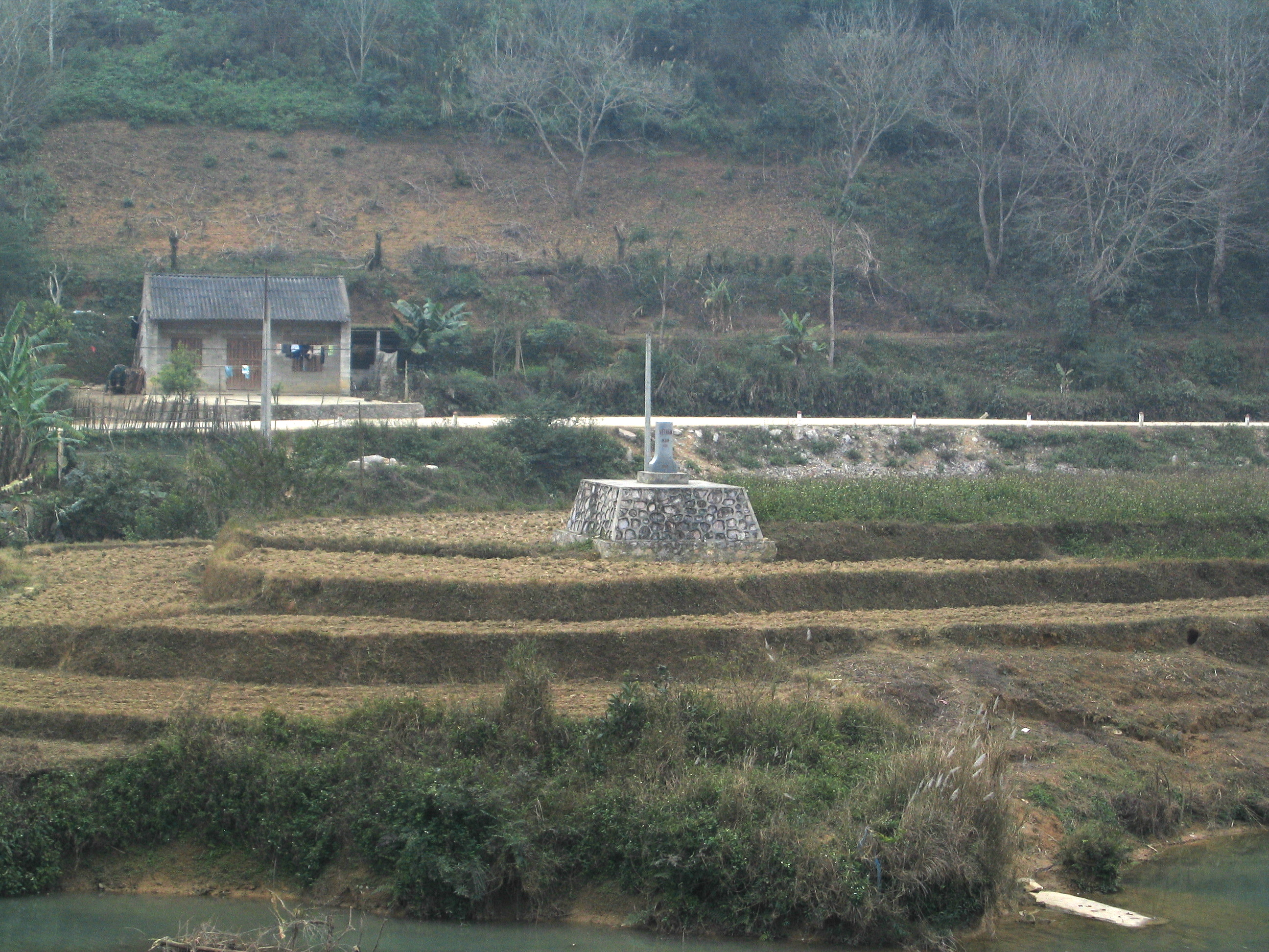 Minh Long commune, Ha Lang District, Cao Bang Province, Viet Nam (as seen from China)